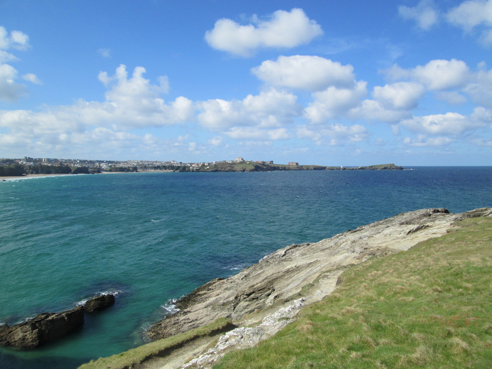 Looking west across Newquay Bay towards Towan Head. Viewed from Trevelgue Head.